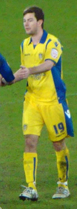 04/01/11 Cardiff V Leeds, Championship, Cardiff City Stadium, Cardiff, Wales